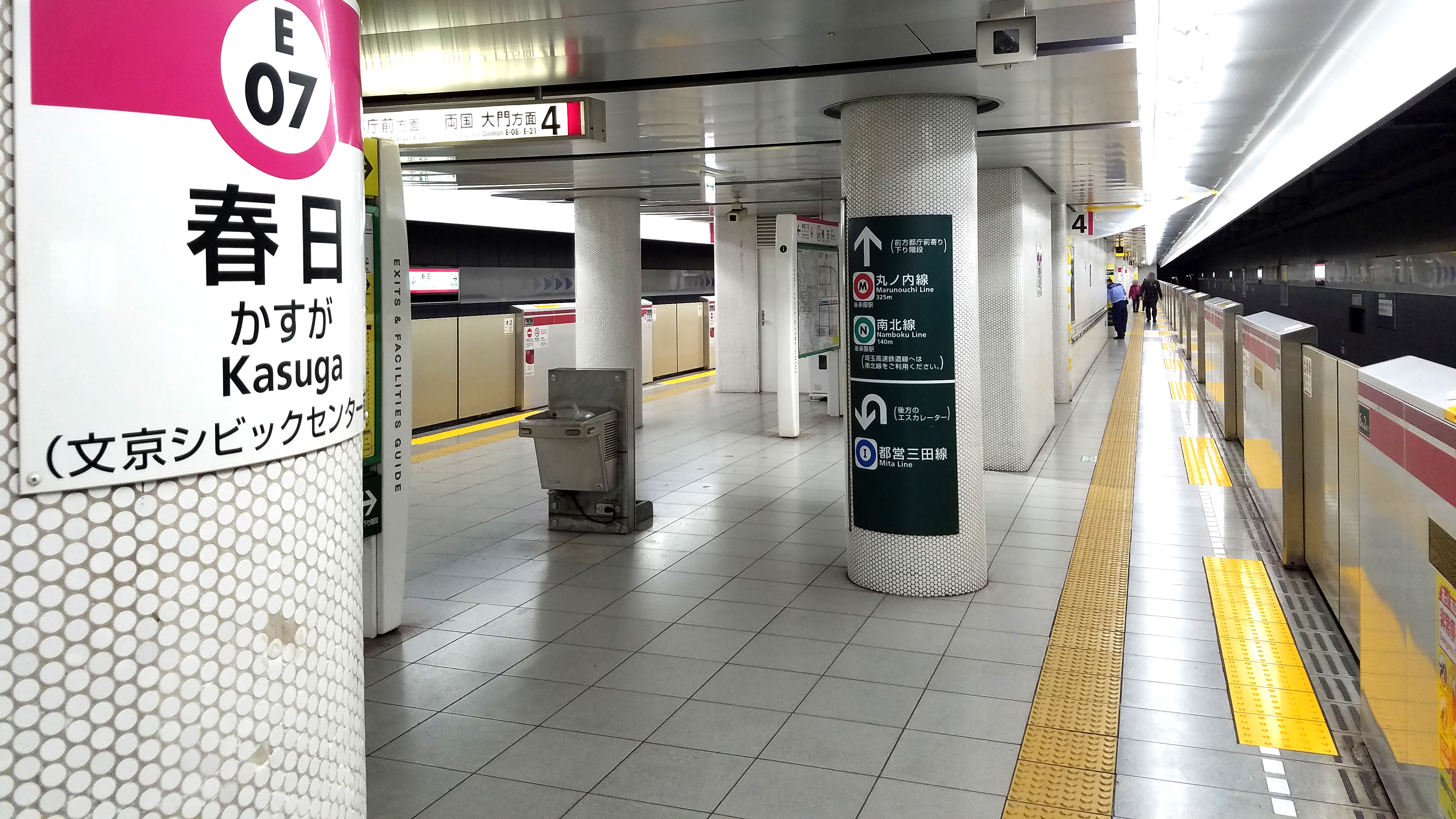 The platform at Kasuga Station on the Toei Ōedo Line in Bunkyō city, Tokyo, Japan